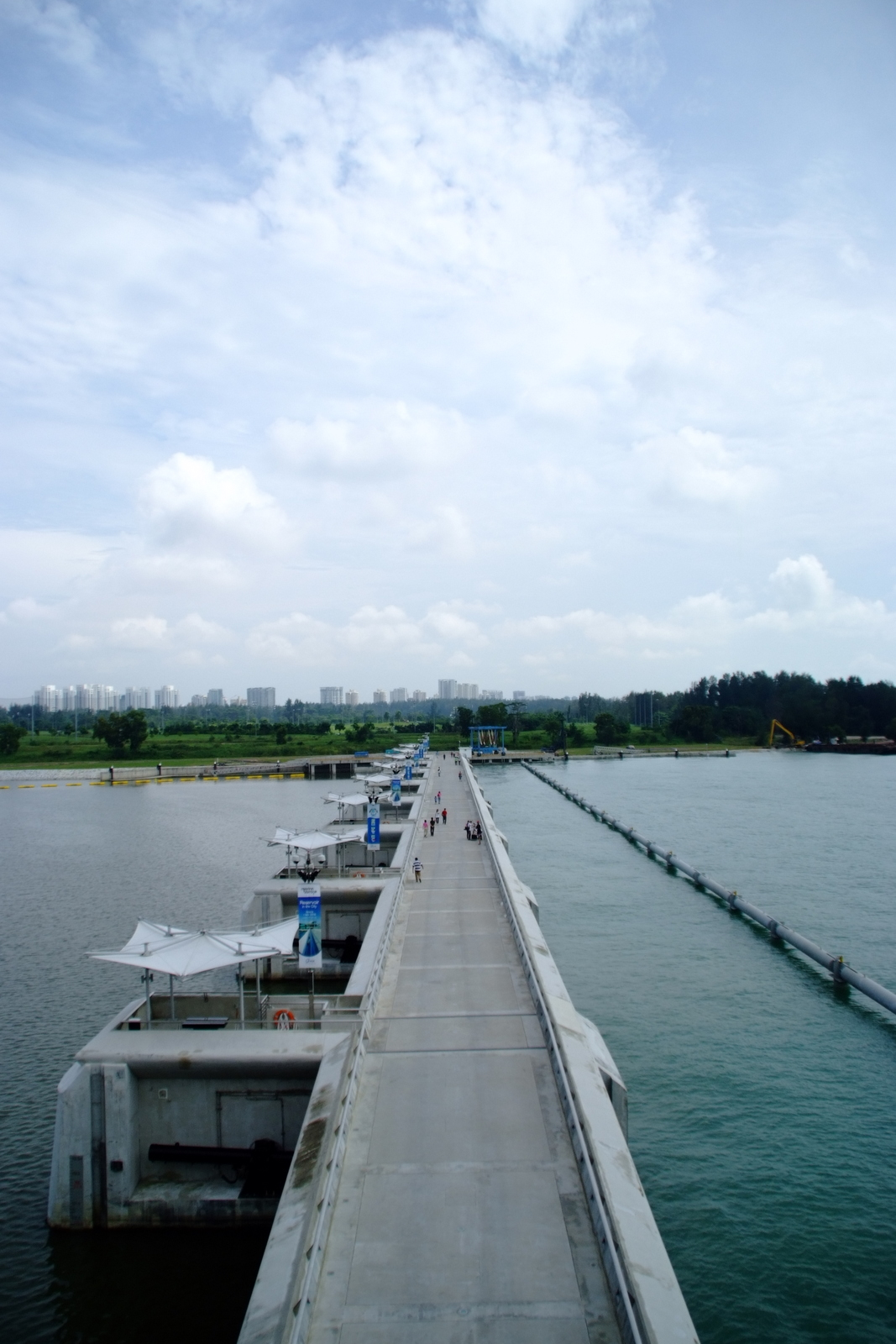 This is the Marina Bridge containing the press gates that form the barrier of the Marina Barrage in Singapore